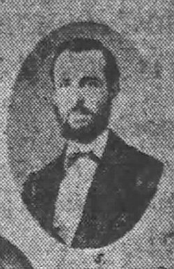 Julius L. Brown